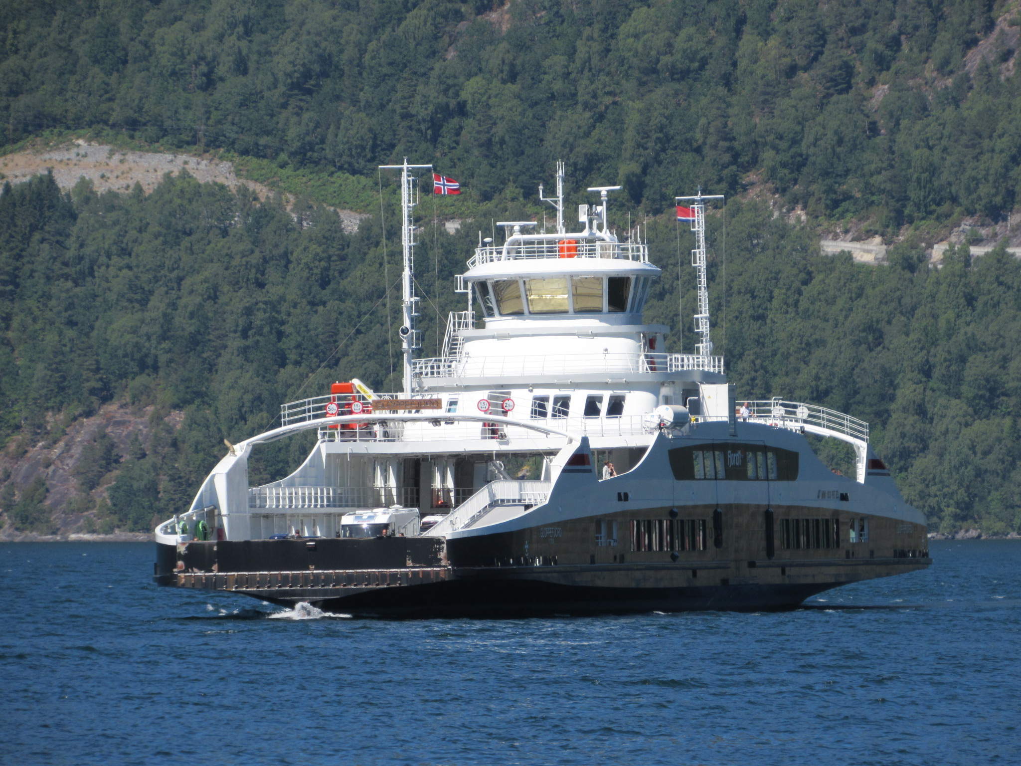 Ro-ro ferry.